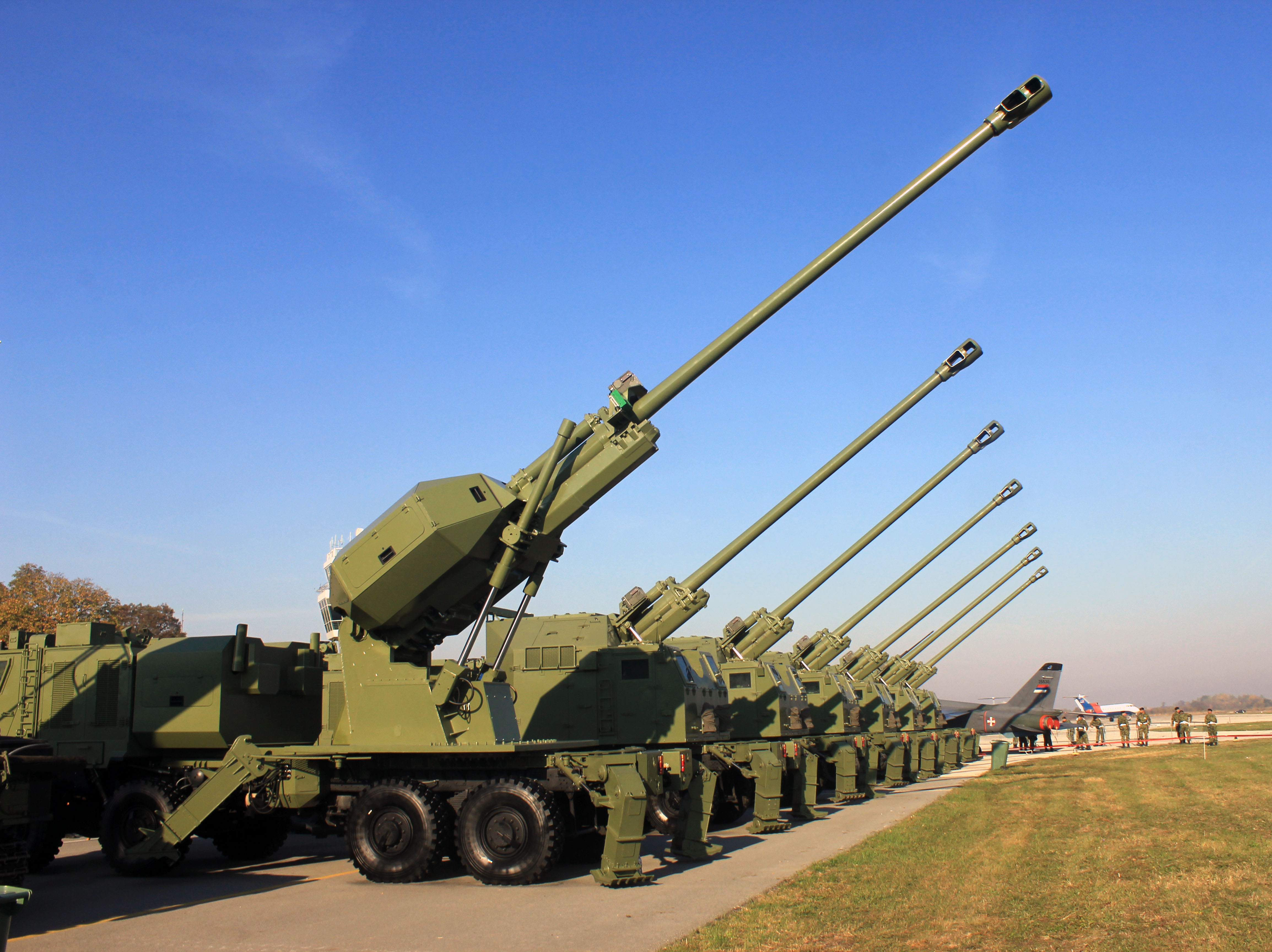 New 155mm SPH Aleksandar and NORA B-52 at Batajnica Air Base presented during the Belgrade liberation day celebration and "Sloboda 2017" military exercise.